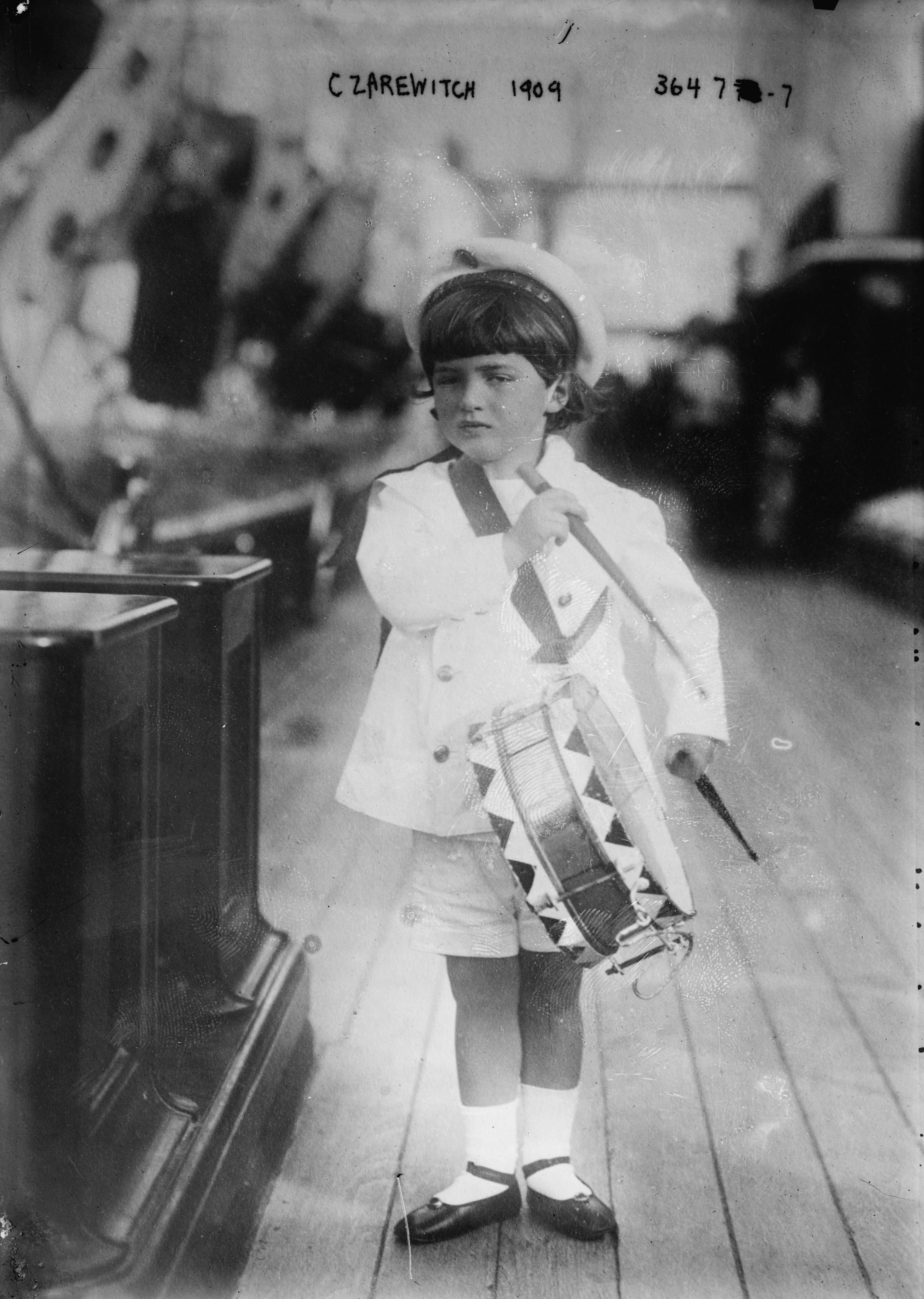 Alexei Nikolaevich, Tsarevich of Russia